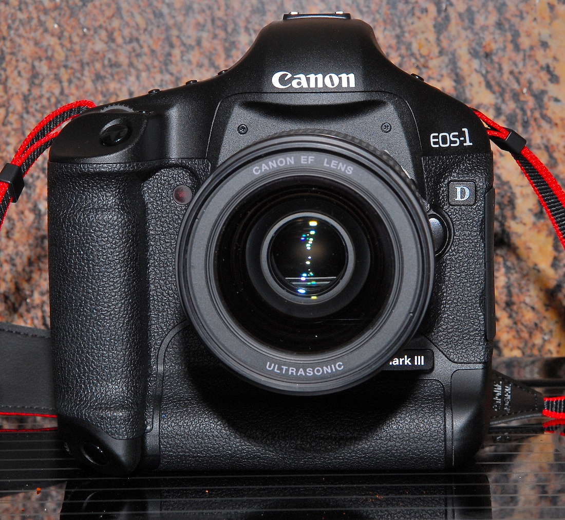 Front View of the Canon EOS-1D Mark III Digital SLR Camera with 35mm f/1.4L USM lens attached. Visible from left are: Main and Portrait Shutter Release buttons, Main Dials, FEL button, ISO, Exposure Compensation, and LCD illumination buttons, Self-Timer Indicator Lamp, Hot Shoe, Manufacturer Logo (engraved), Lens Release Button, Camera Name Plates, the forward corner of the LP-E4 Lithium-ion battery, and the Mode Button.